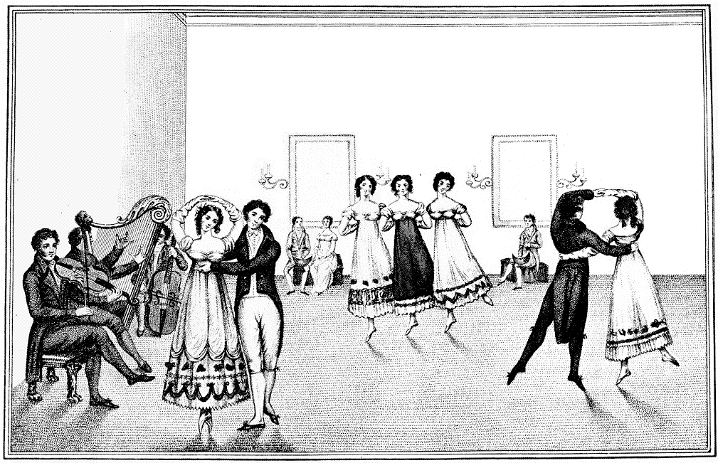 An 1817 engraving depicting two couples waltzing, and three girls practicing their country-dance steps (apparently). The dancing women are wearing skirts with a somewhat stiffened conical silhouette (produced by wearing several layers of petticoats) which seems to have been on the cutting-edge of the most recent high-fashions in 1817. The woman sitting down in the background is still wearing the more free-flowing and clinging skirts which were typical of the 1797-1817 period. Engraving from La Belle Assemblée, February 1, 1817.